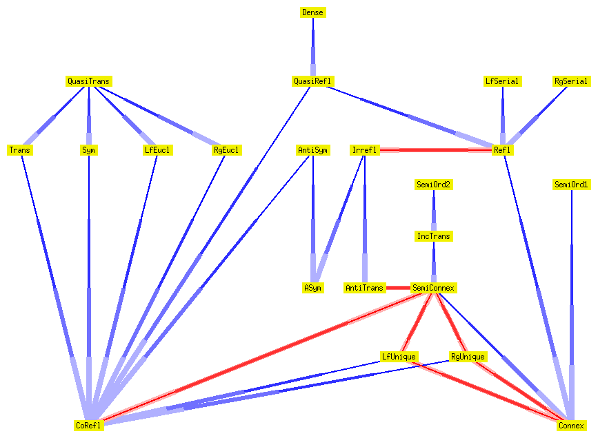 Shows the implications (blunt light blue end ⇒ peaked dark blue end) and conflicts (red) between properties (yellow) of homogenous binary relations. For example, every asymmetric relation is irreflexive ("ASym ⇒ Irrefl"), and no relation on a non-empty set can be both irreflexive and reflexive ("Irrefl # Refl"). Omitting the red edges results in a Hasse diagram.